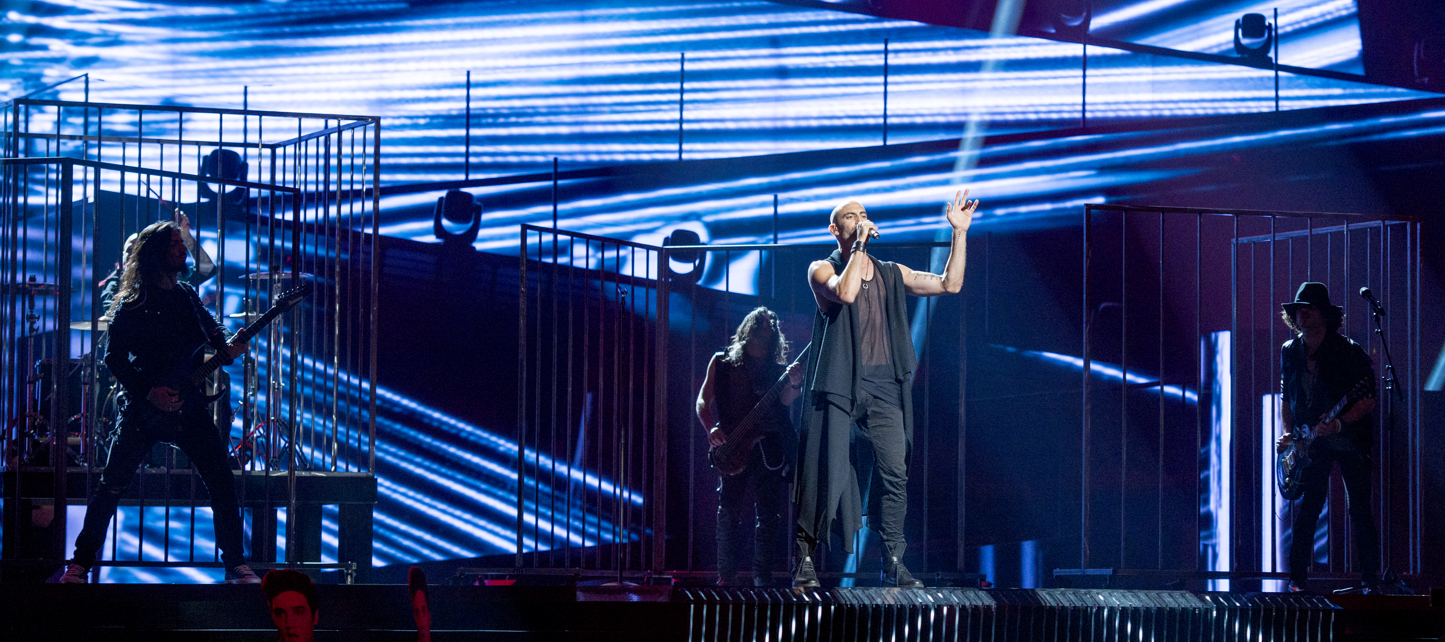 Minus One representing Cyprus with the song "Alter Ego" during a rehearsal before the first semi final of the Eurovision Song Contest 2016 in Stockholm. (Help translate this text)